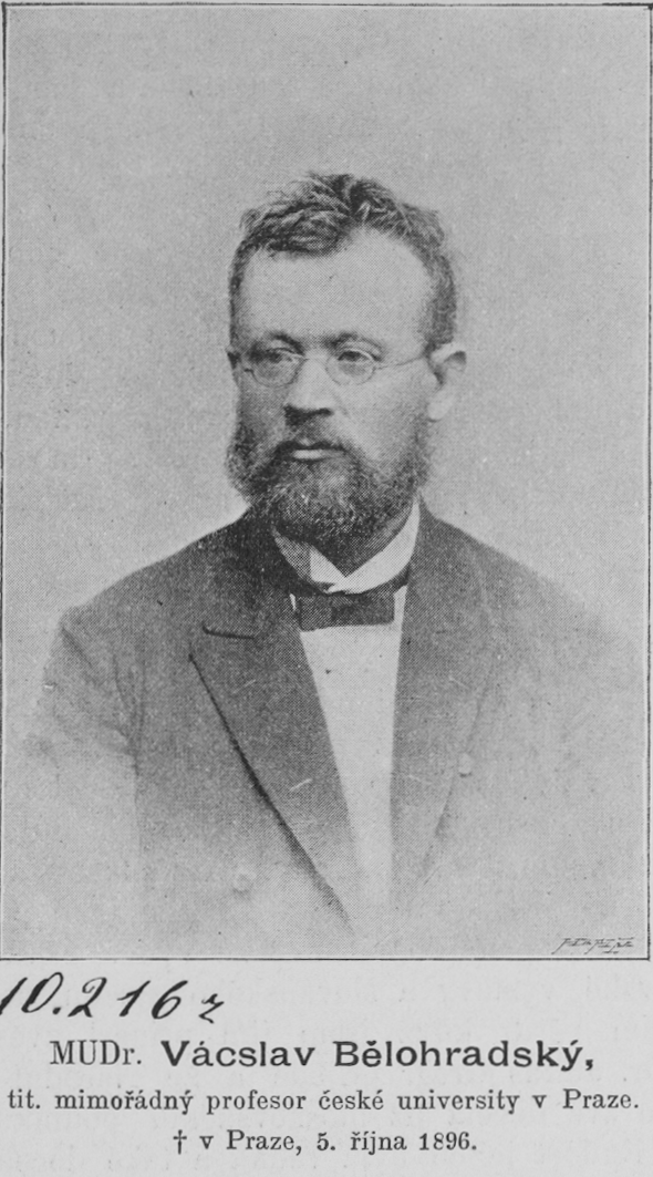 Portrait of Václav Bělohradský (1844-1896), Czech coroner, professor of pathology.